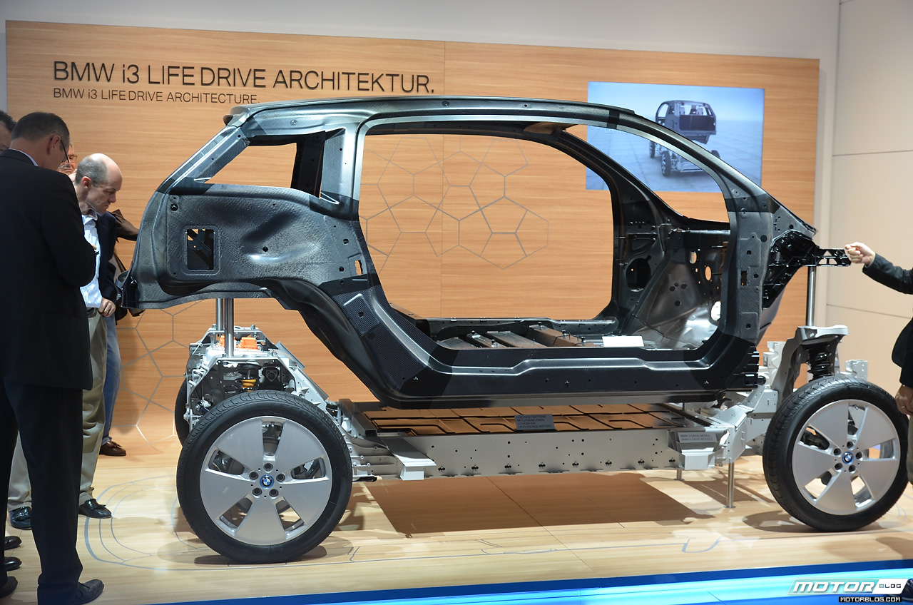 IAA Frankfurt 2013: BMW i3 / Photo: Raphael Jahn ______________________ Please feel free to use this image for FREE under the Creative Commons (CC) licence. However, if you use the image, pls set a backlink to and give credit as following: "Image: ". For highres images or any other inquiries pls contact mailto: . Thanks.